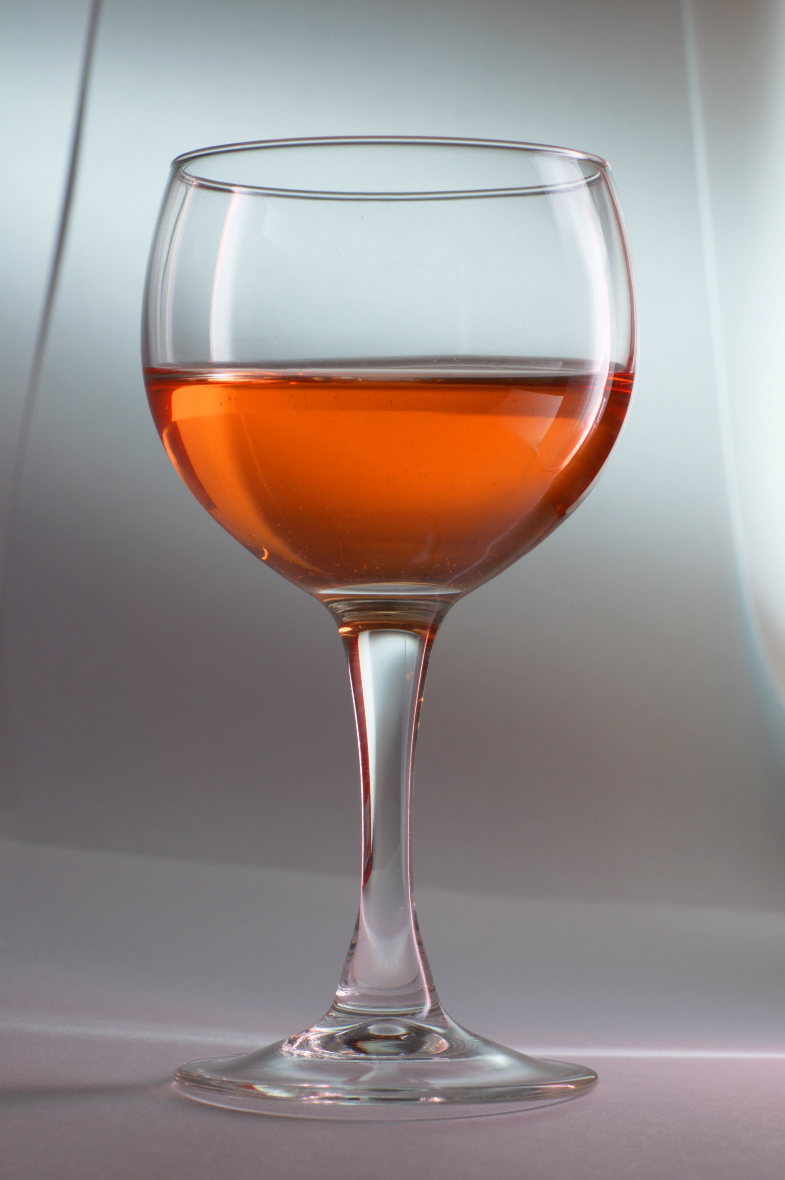 Cranberry wine